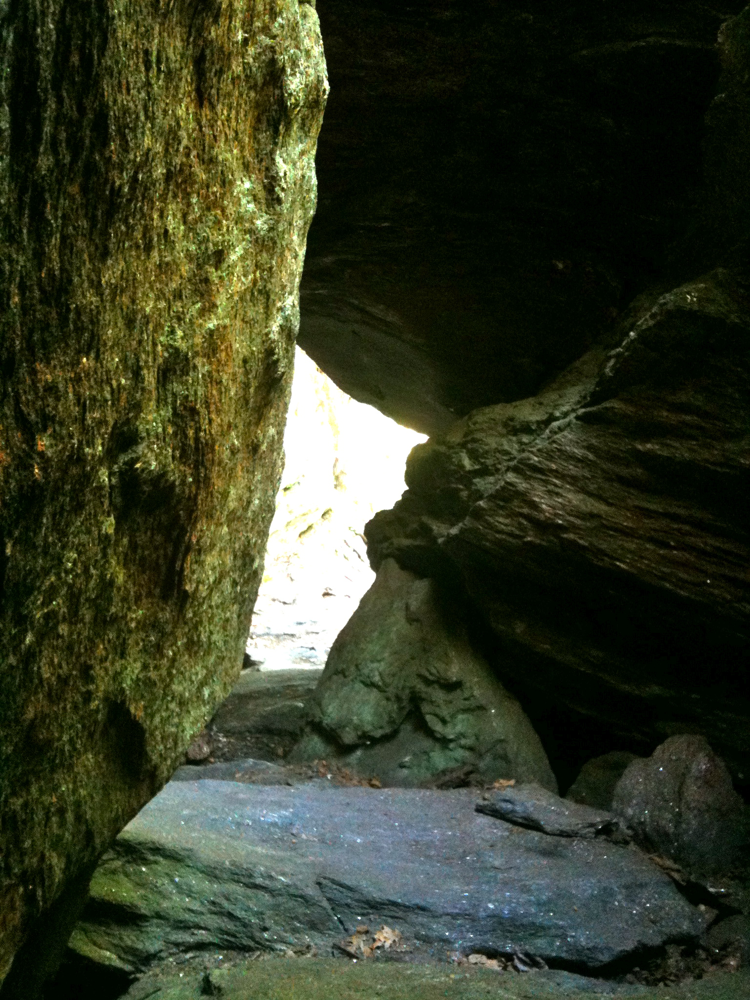 Jericho Blue-Blazed Trail. Leatherman's Cave under Crane's Lookout at Mattatuck and Jericho Trail junction.